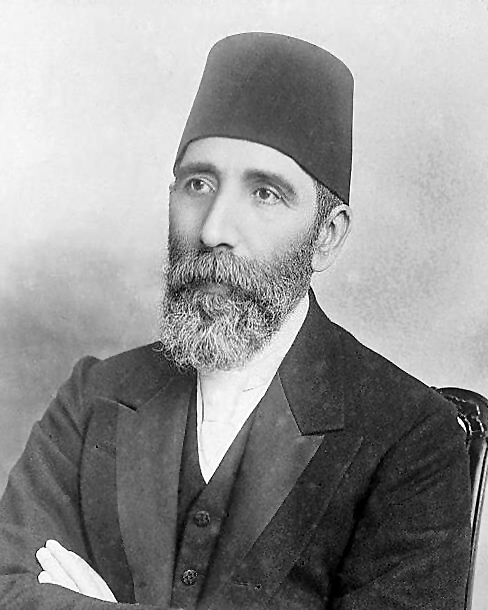 Hüseyin Hilmi Pasha (Ottoman Turkish: حسین حلمی پاشا, Hussein Hilmi Pasha) (1855 – 1922/1923)